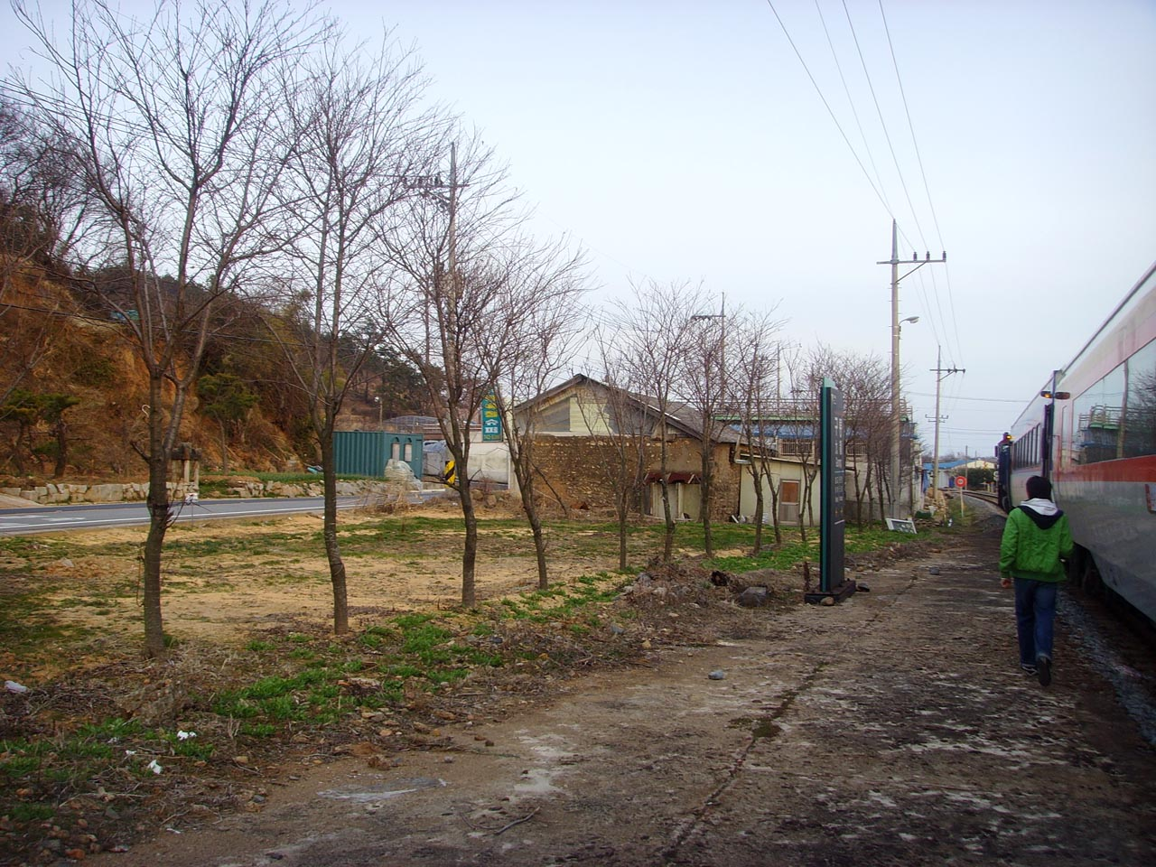 Guryong Station (Gyeongjeon Line), (Byeollyang-myeon, Suncheon-si, Jeollanam-do)